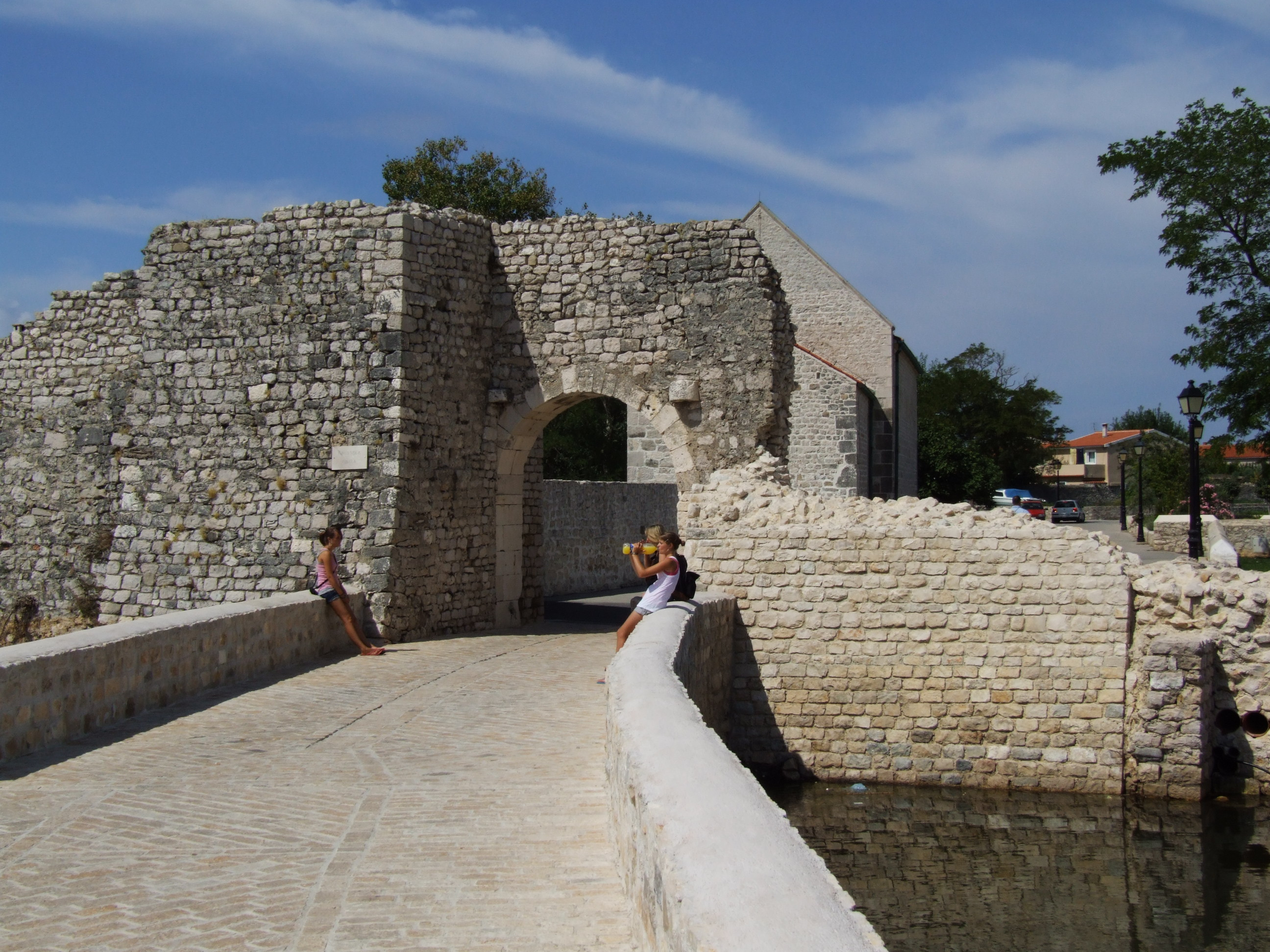 Nin - Gornja vrata (Upper Gate)